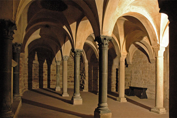 Santa Trinita. Crypt. Florence